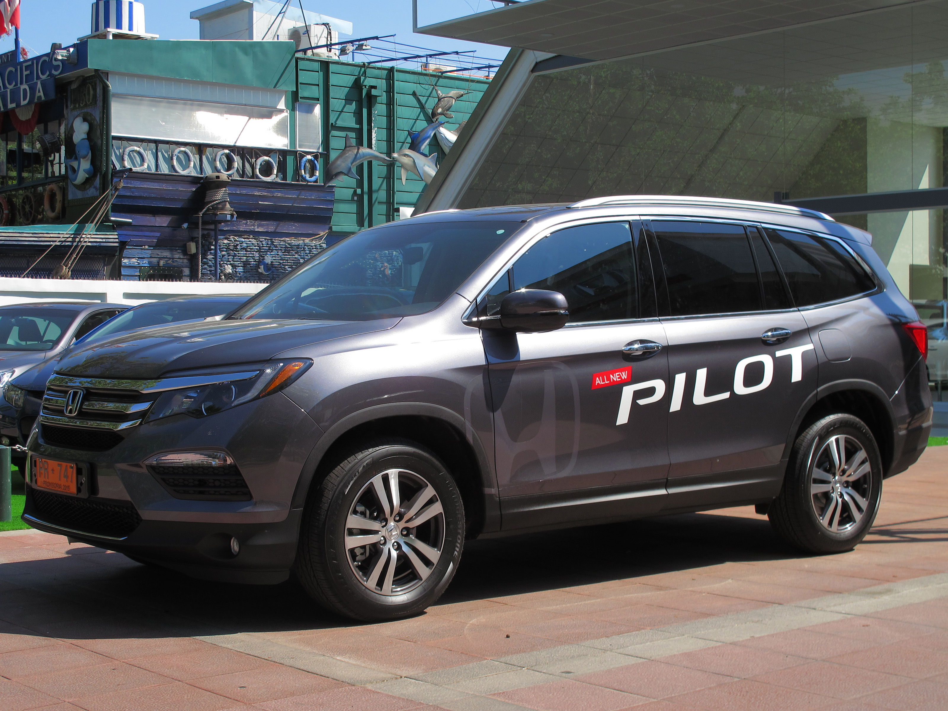 New Honda Pilot 3.5 Elite AWD 2016